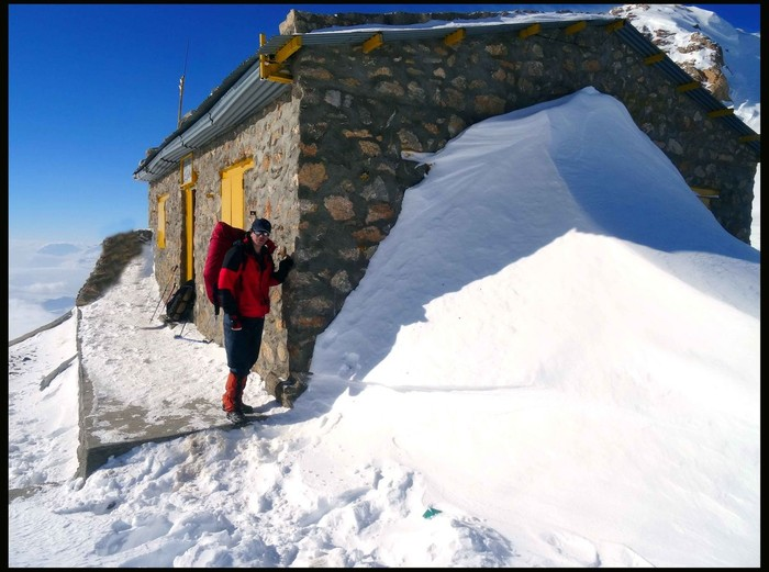 کمپ دالاخانی